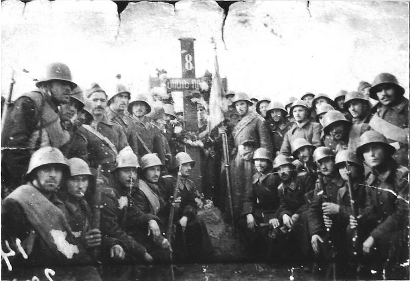 Soldiers of the 8th Cavalry Regiment (Bulgaria) at the monument of their fallen comrades around Bujanovac, Serbia during World War II, October 29, 1944